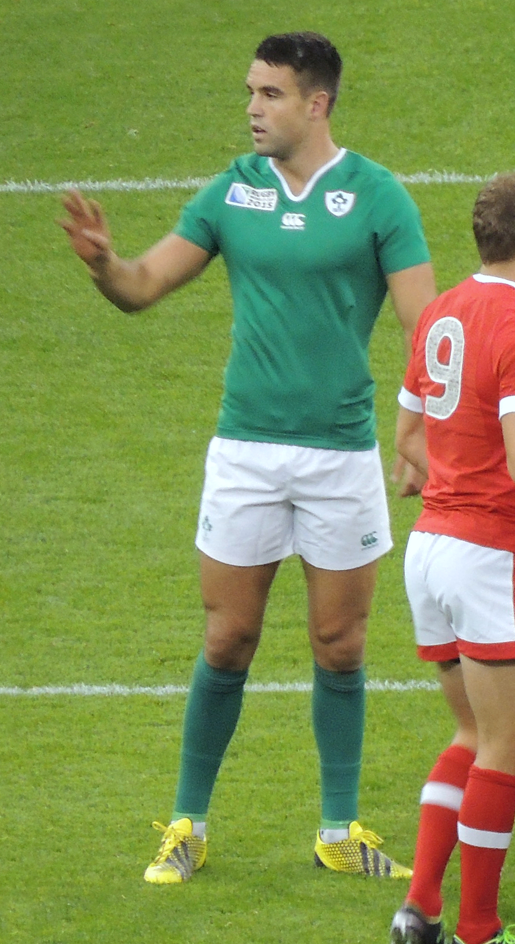 Irish rugby union player Conor Murray playing in 2015 Rugby World Cup game Ireland vs Canada at Millennium Stadium in Cardiff.